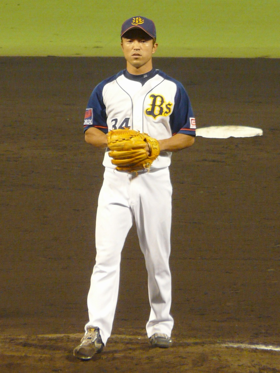 Kazuya Motoyanagi, pitcher of the Orix Buffaloes, at Ajisai Stadium Kita-Kobe.